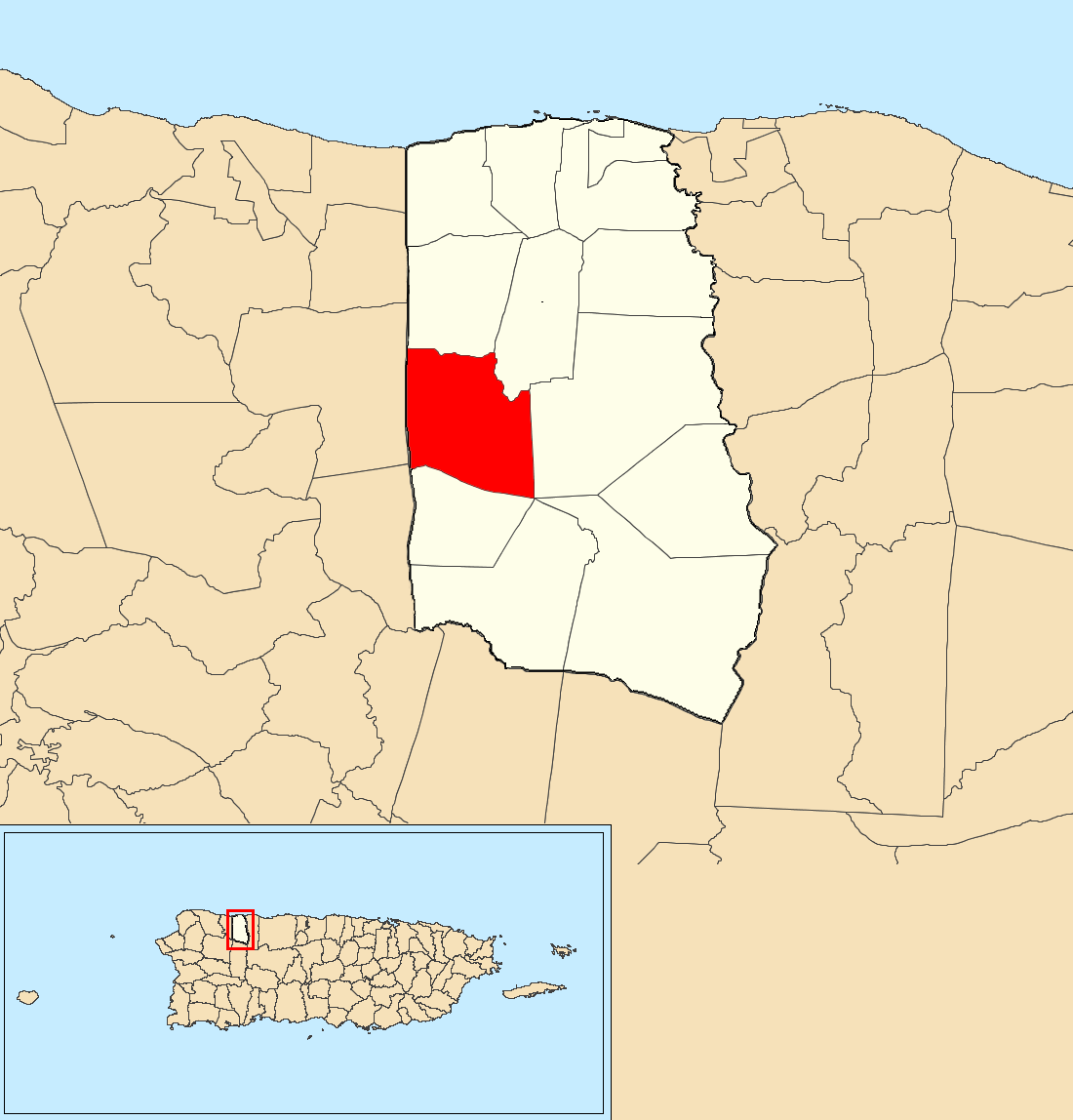 Piedra Gorda, Camuy, Puerto Rico locator map